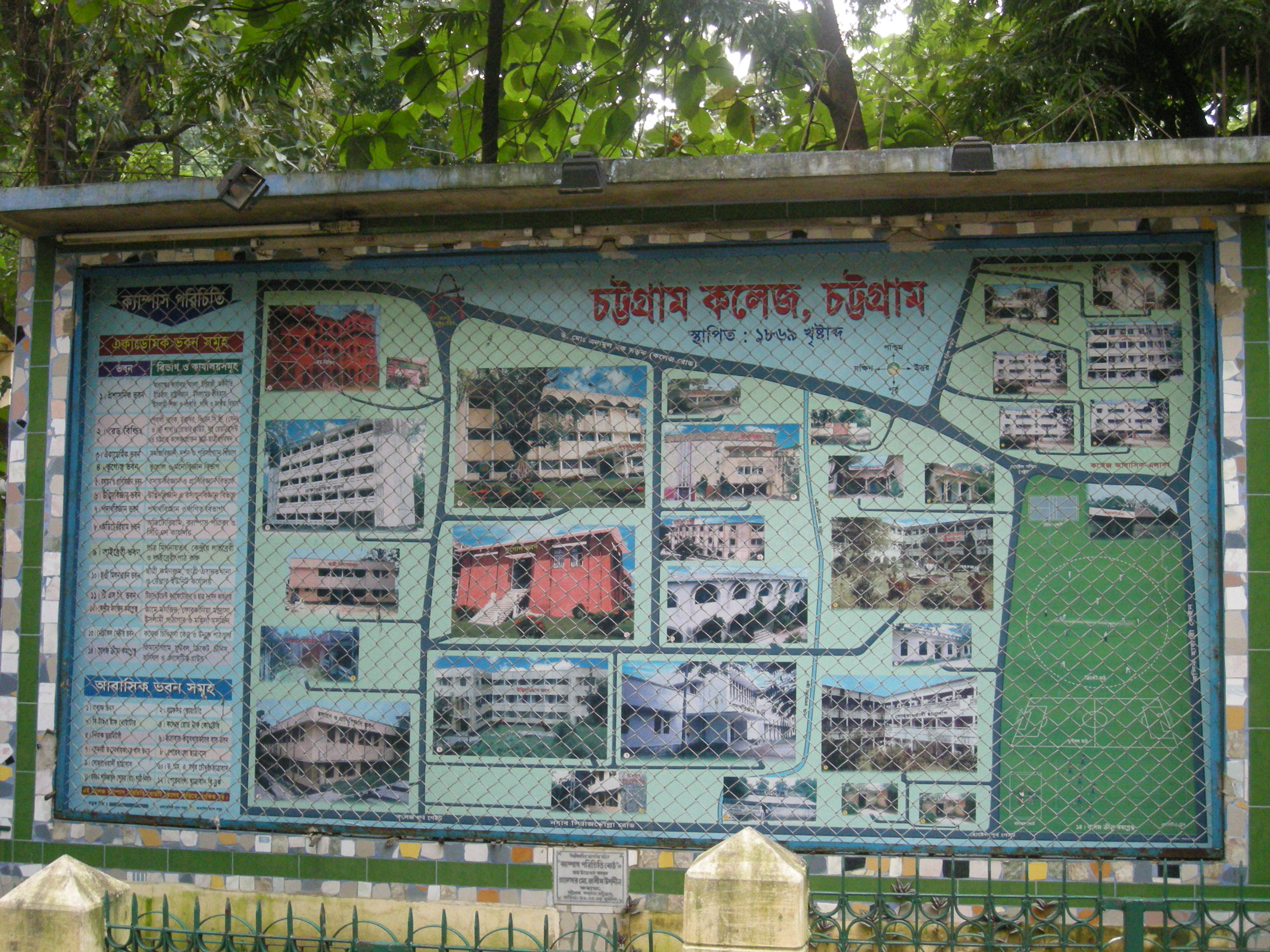 Area Map of Chittagong College Boundary.